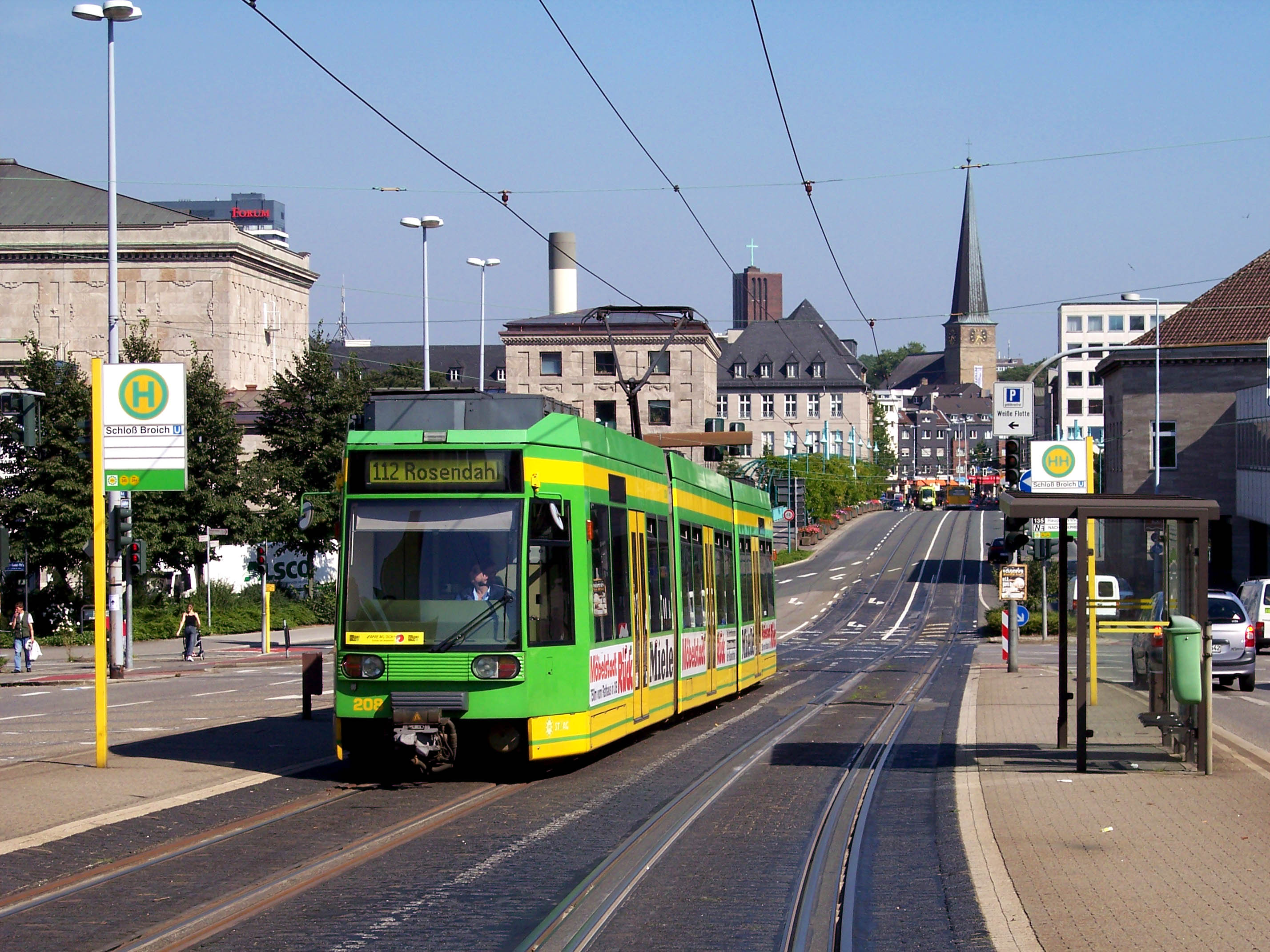 An Oberhausen-owned tram has just crossed the river Ruhr in Mülheim on its way to the sole depot of the combined Mülheim-Oberhausen metre gauge tram system. Oberhausen's six trams, all 1996 DUEWAG MGT6Ds, are stabled and maintained in Mülheim and pooled with Mülheim's four vehicles of the same type.